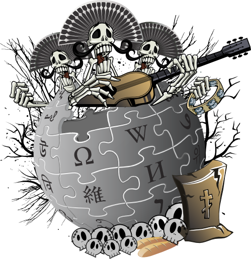 Wikipedia Day of the Dead